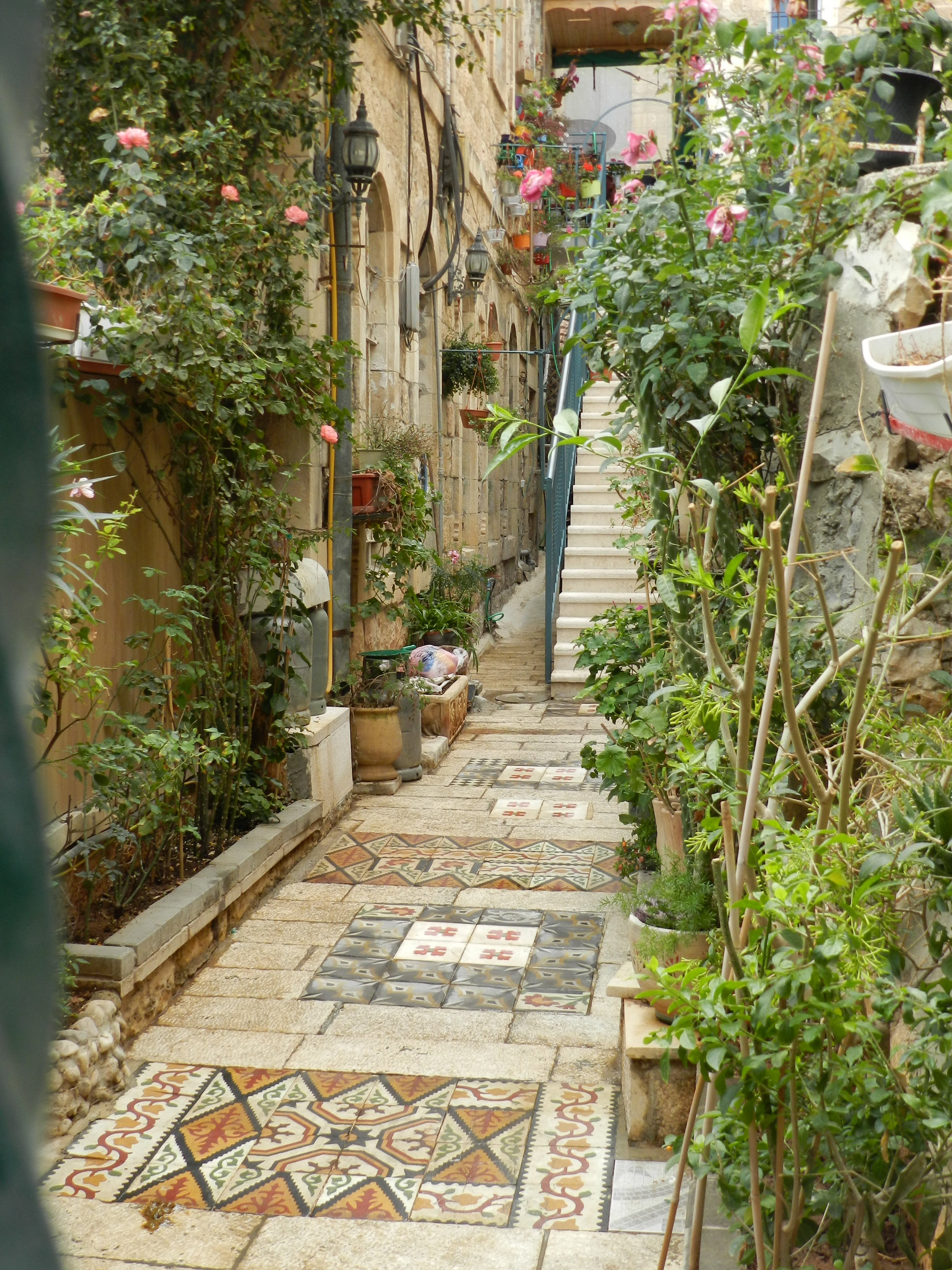 Entrance to a house in Musrarar, Cities in Israel